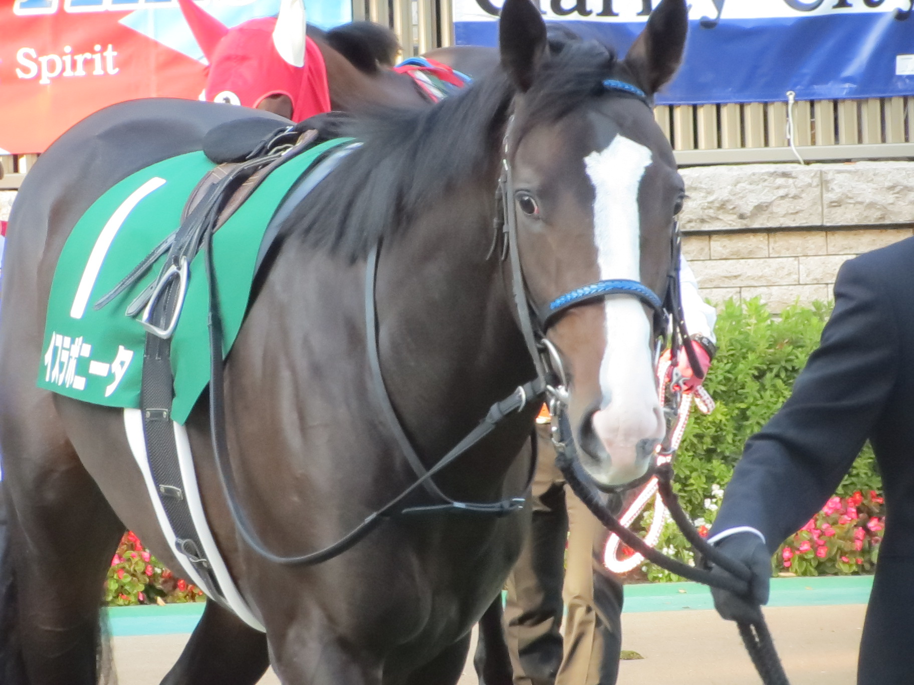 Photograph of "Isla Bonita" taken on Nov 2014.